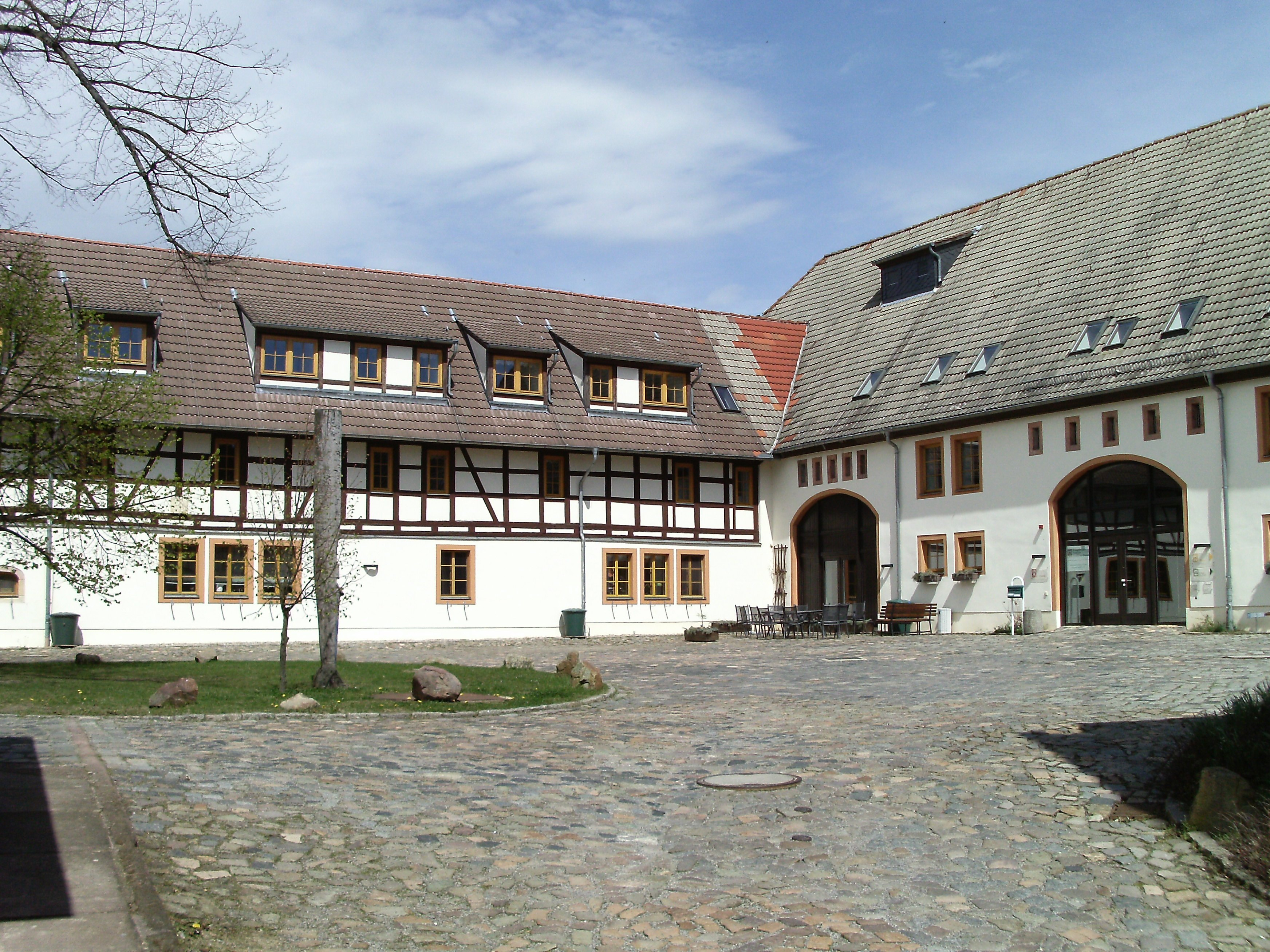 Rectory yard in Kohren-Sahlis (Leipzig district, Saxony), today folk high school